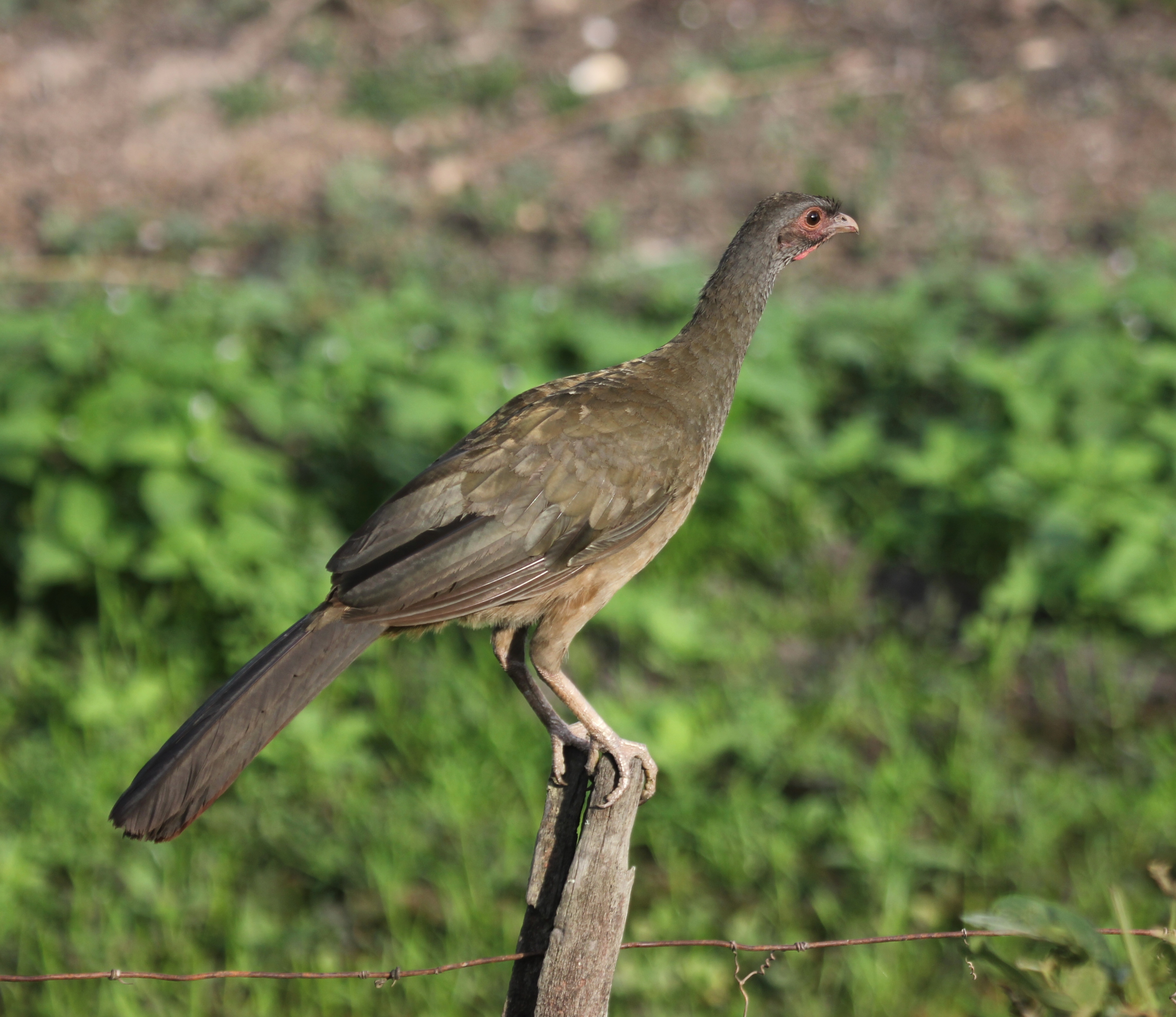 Chaco Chachalaca (Ortalis canicollis) near the Transpantaneira in the Pantanal, Brazil